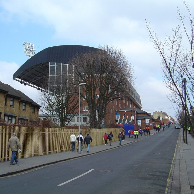 Selhurst Park, Holmesdale Road Stand.